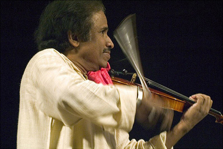 Violin Maestro L. Subramaniam in concert at the Music Academy in Chennai with Jean Luc Ponty.L. Subramaniam. Chennai